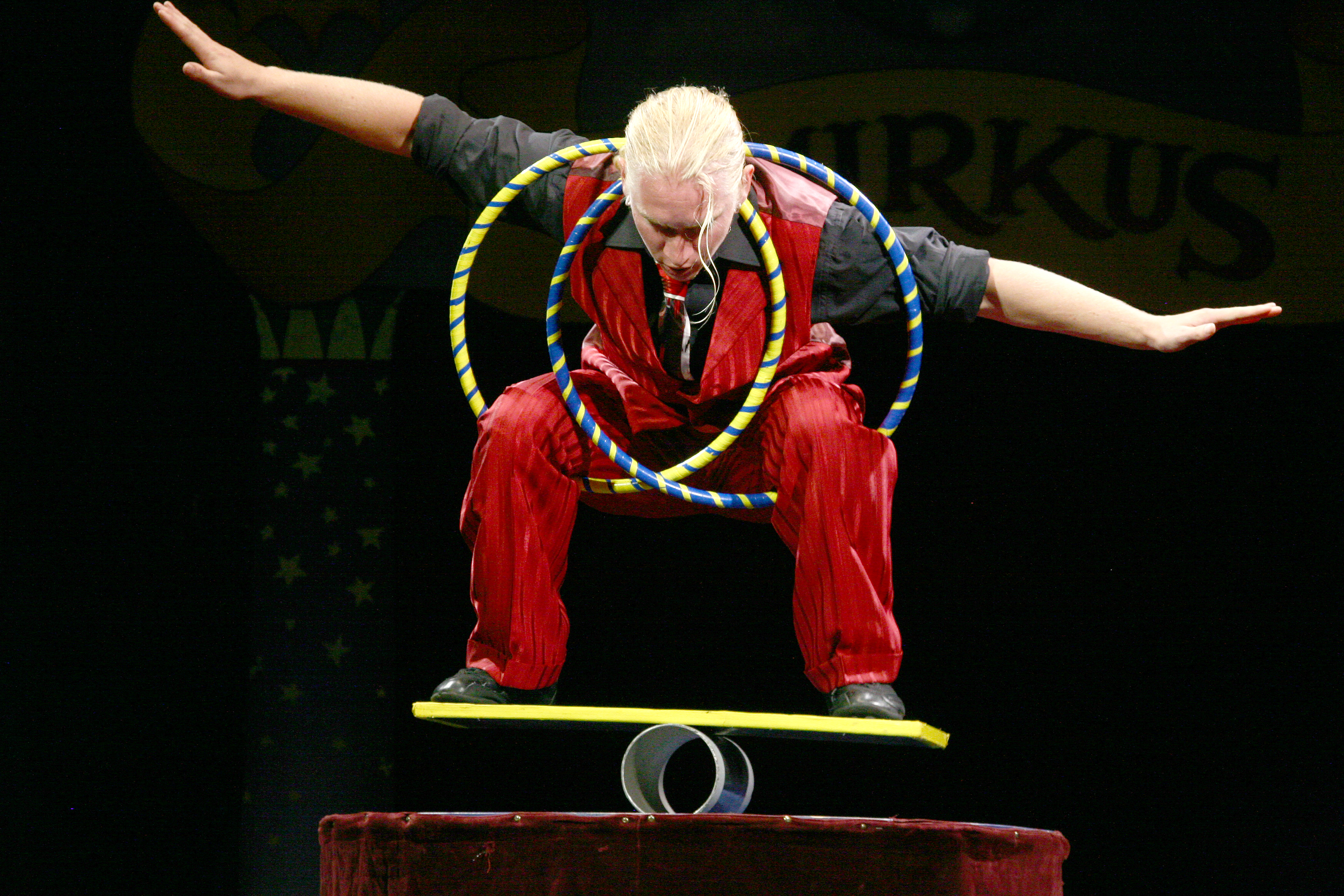 A performer in Circus Smirkus, a summer circus based in Greensboro, Vermont that travels around New England. Most members of its troupe are 10 to 18 years old. The sessions of its summer circus camp run from two days to two weeks.